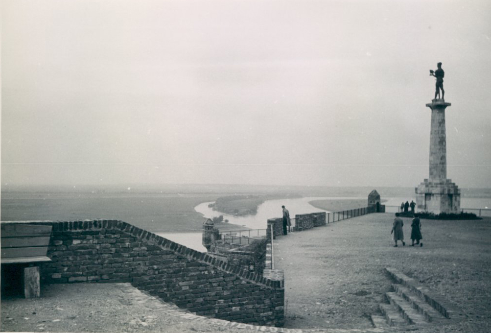 Old Belgrade Streets